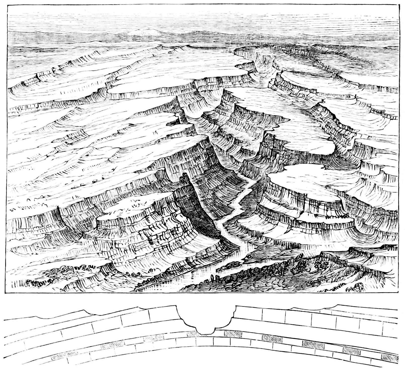 An anticlinal valley with section